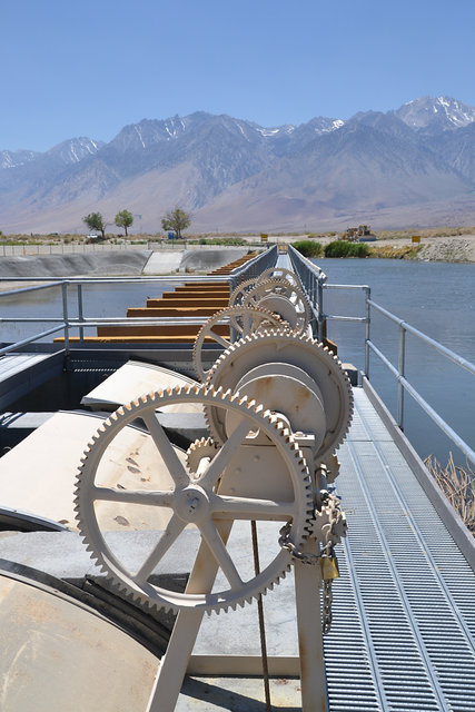 These are the gates that prevent water from flowing into the Lower Owens River.